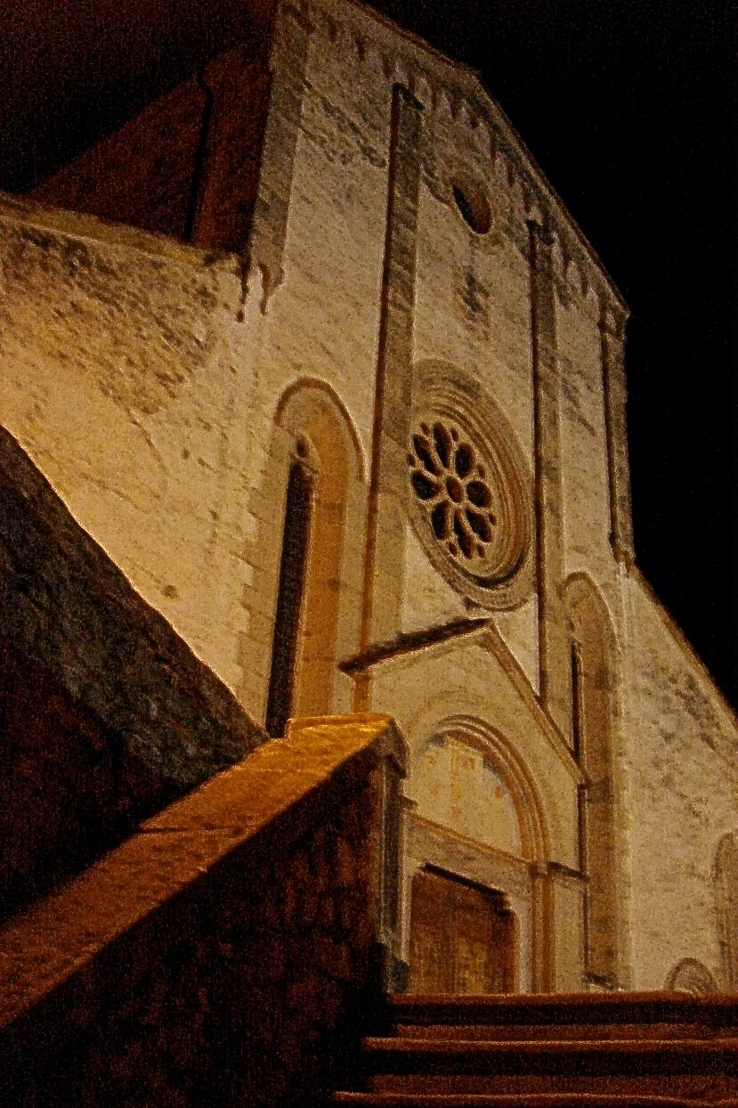 Follina, abbazia